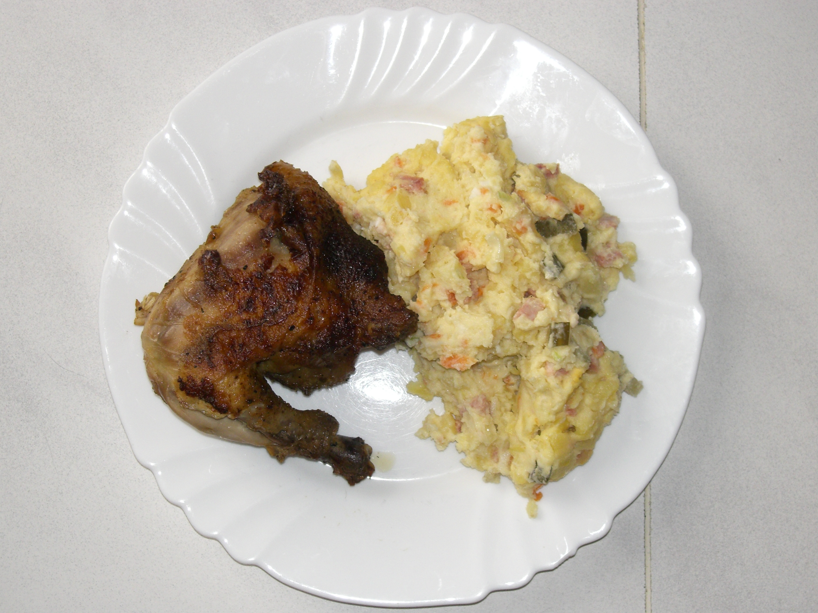 Potato salad with chicken , Czech Republic